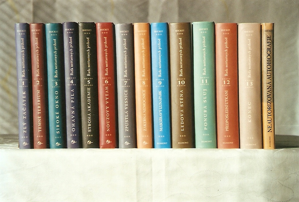 A series of \unfortunate Events - all 13 books plus The Unauthorized Autobiography.